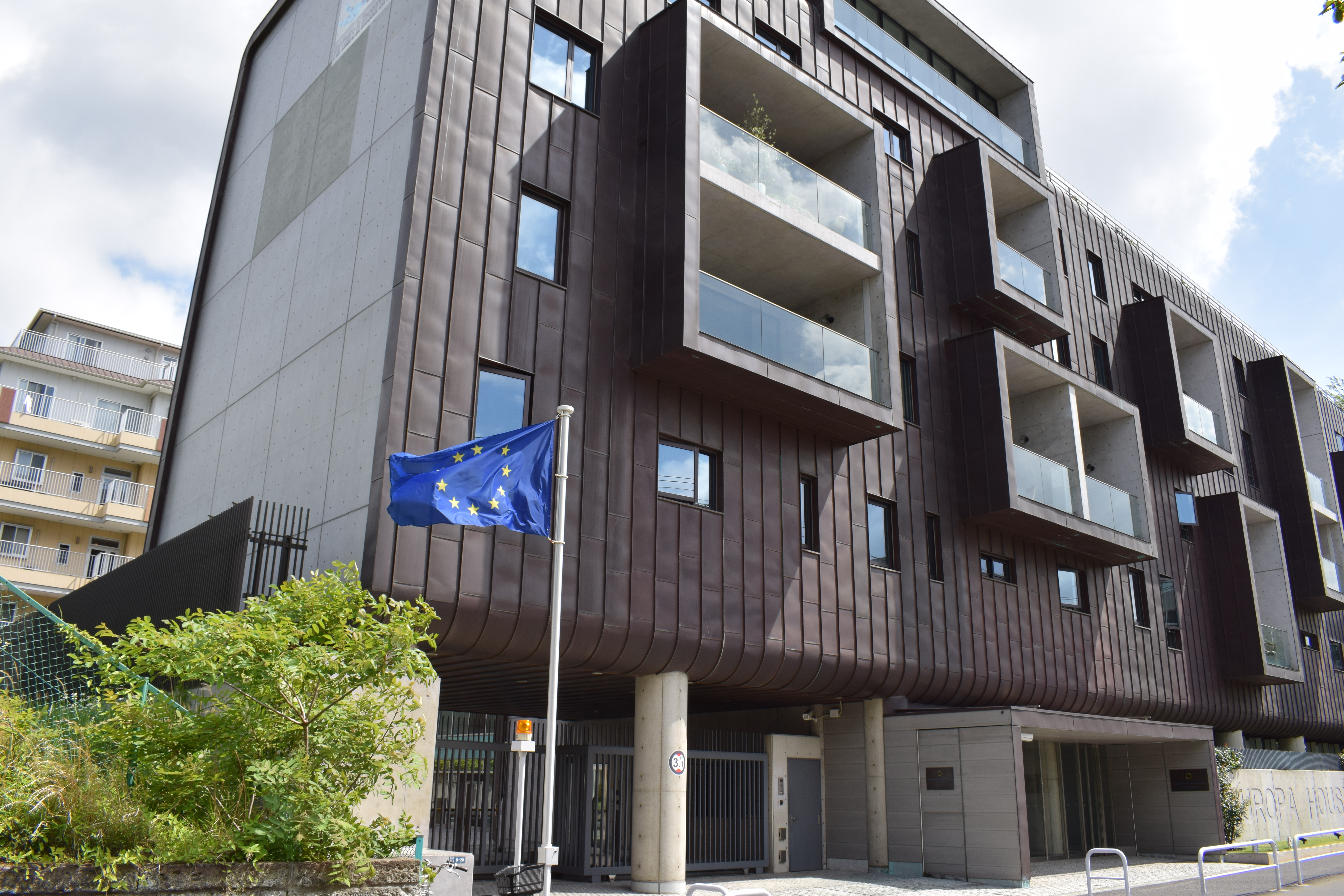 Delegation of the European Union to Japan